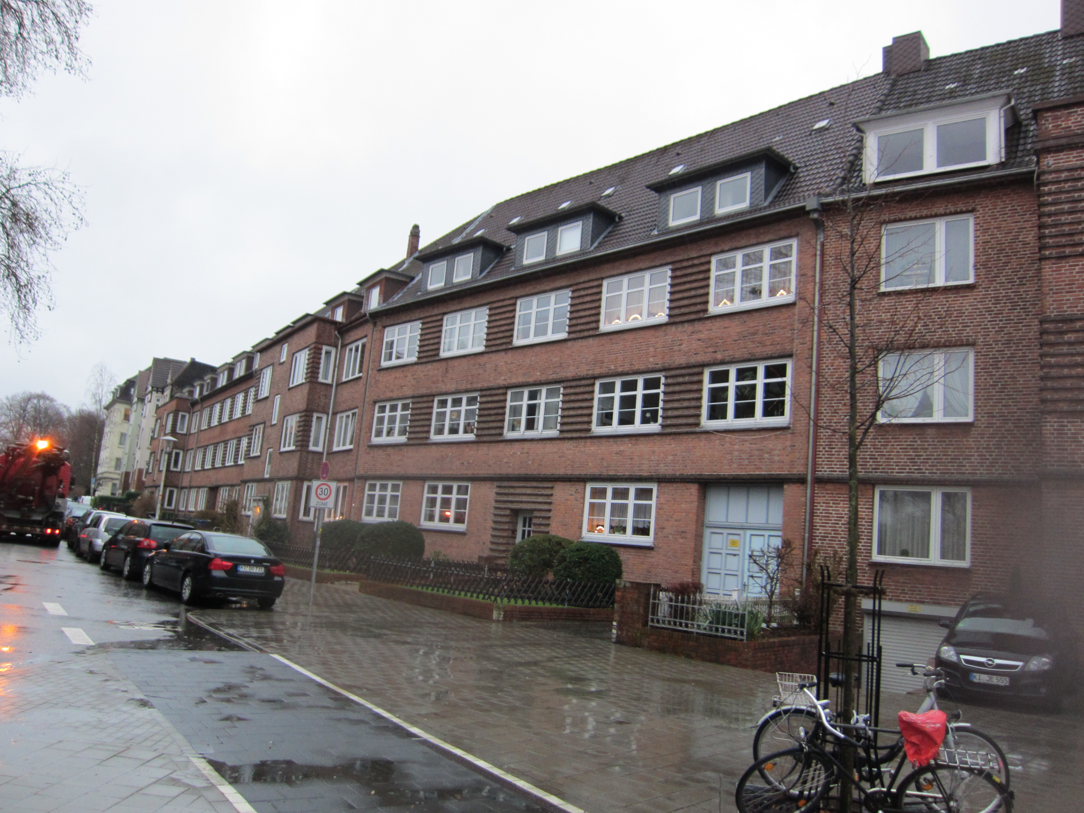 Theodor-Storm-Straße, Kiel-Schreventeich